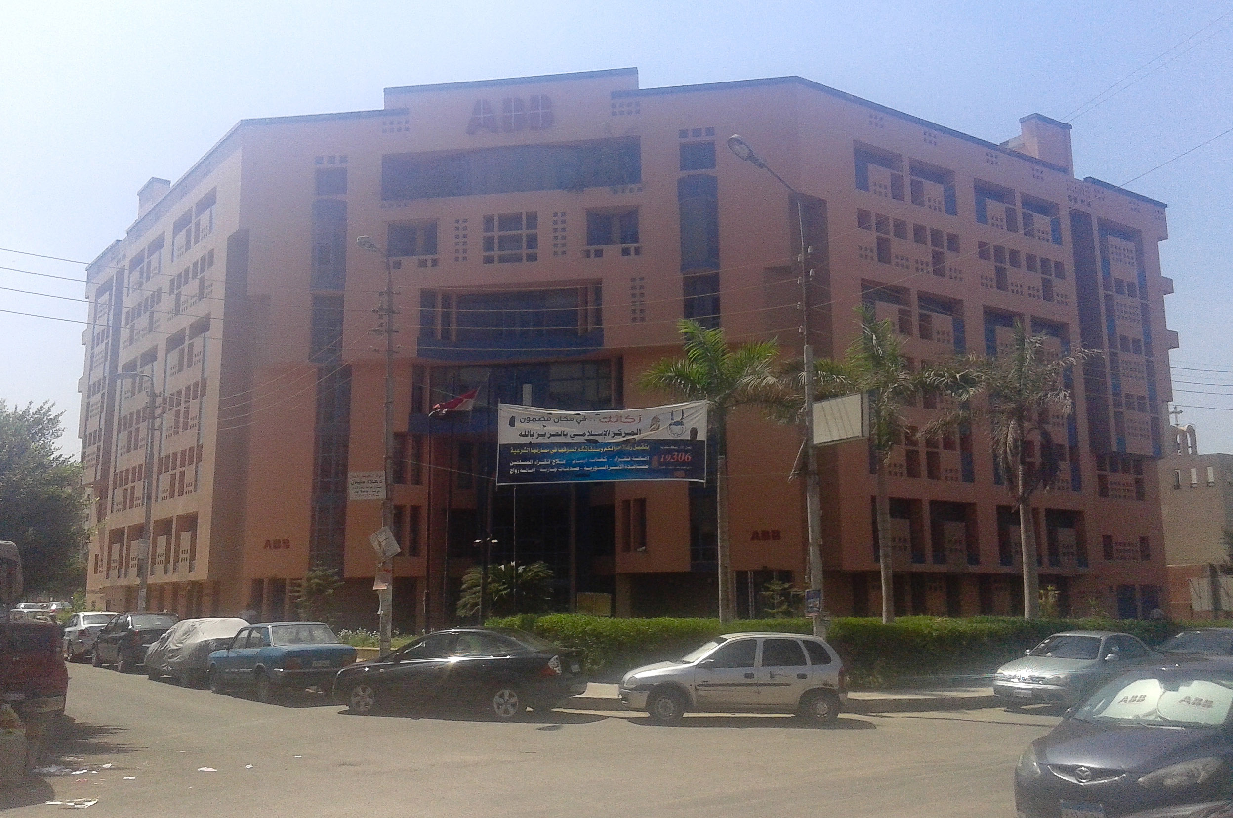 ABB building in Egypt